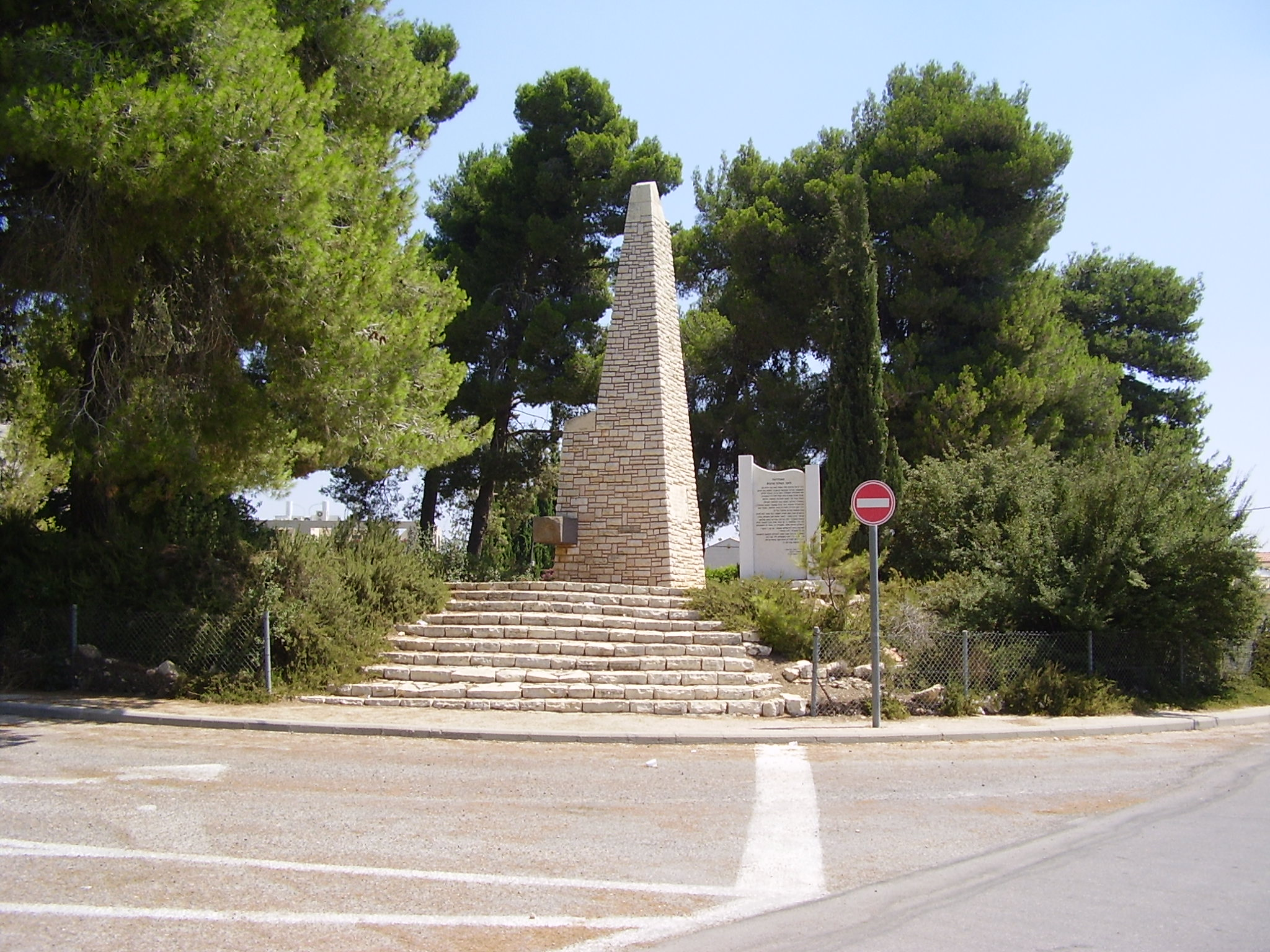 David Marcus memorial